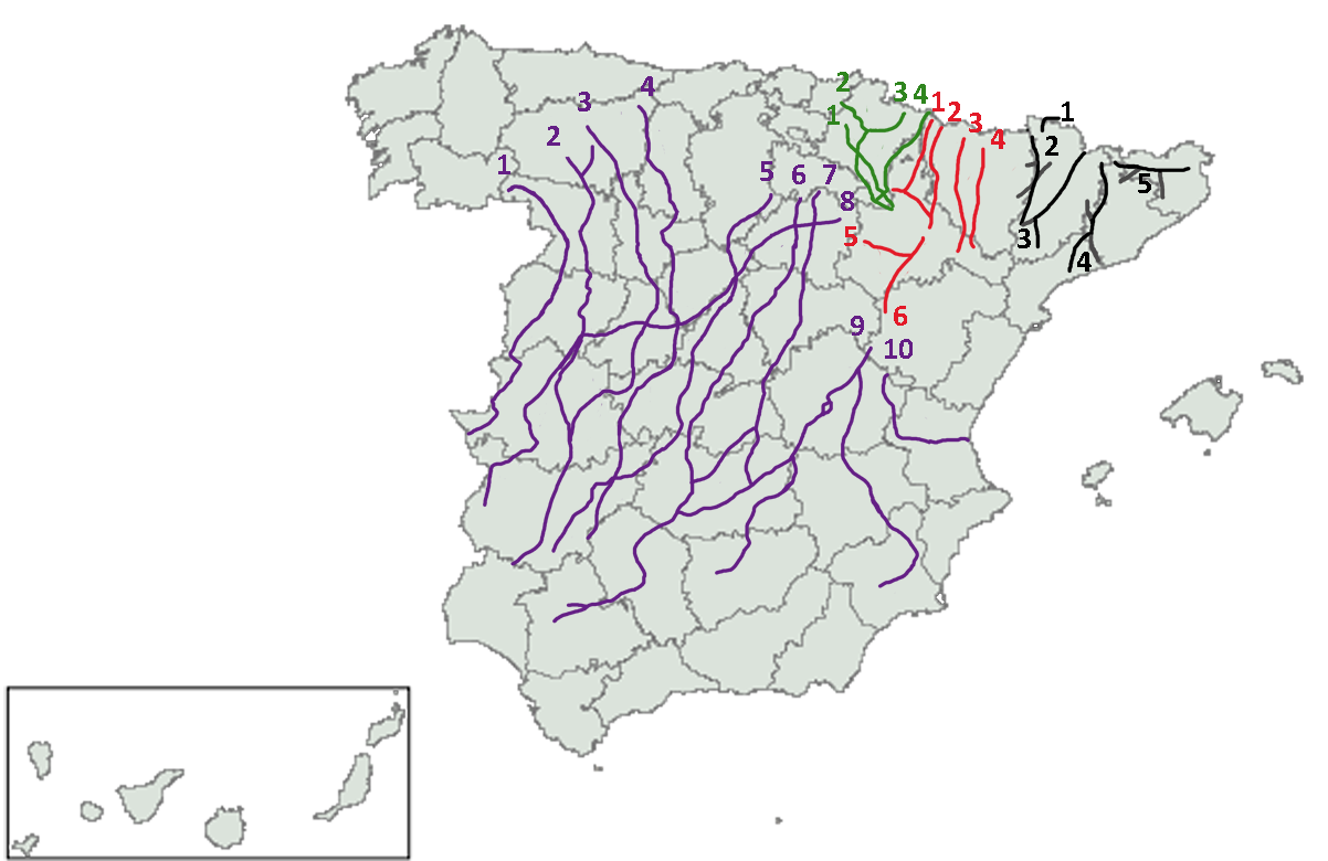 Main drove roads in Spain: Cañadas reales of the Castilian Crown Cañadas reales of the Navarran Kingdom Cabañeras of the Aragonese Kingdom Carrerades of the Principality of Catalonia